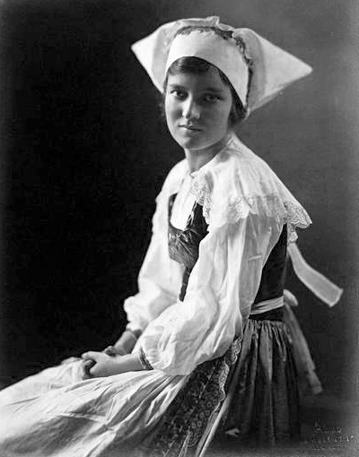 Photograph of Peggy Wood in the Broadway musical Buddies